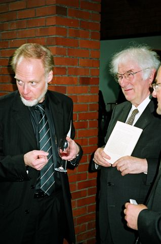 Seamus Heaney (b. 1939), Irish writer and Tony Miłosz (son of Czesław Miłosz)